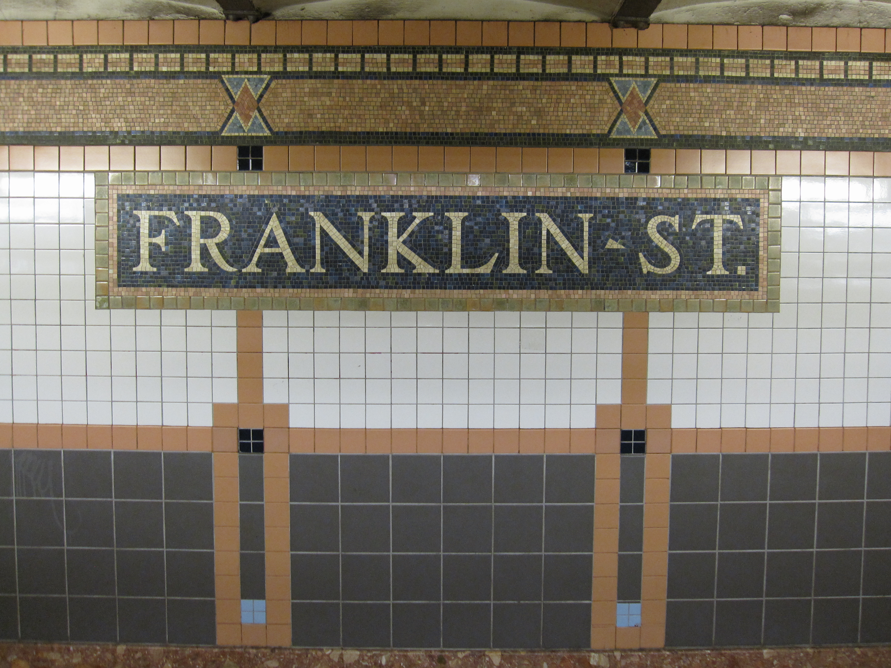 Category:Franklin Street (IRT Broadway – Seventh Avenue Line)